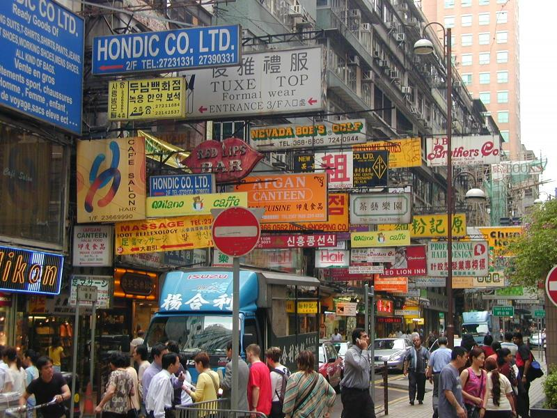 Signs on Lock Road (looking north), Tsim Sha Tsui, Hong Kong.